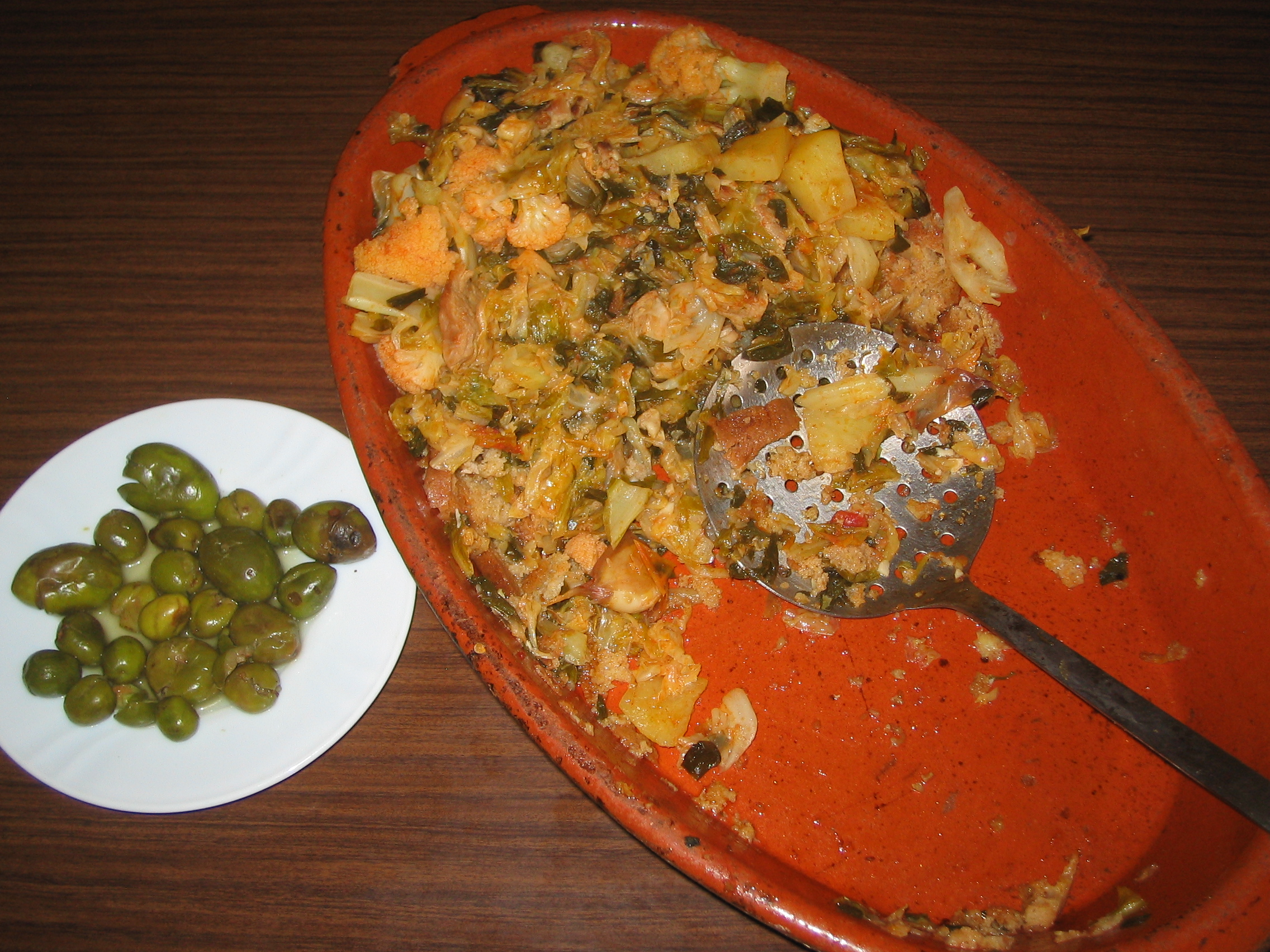 A tipical majorcan dish made with assorted veg called "Sopas mallorquinas" (Majorcan Soup)